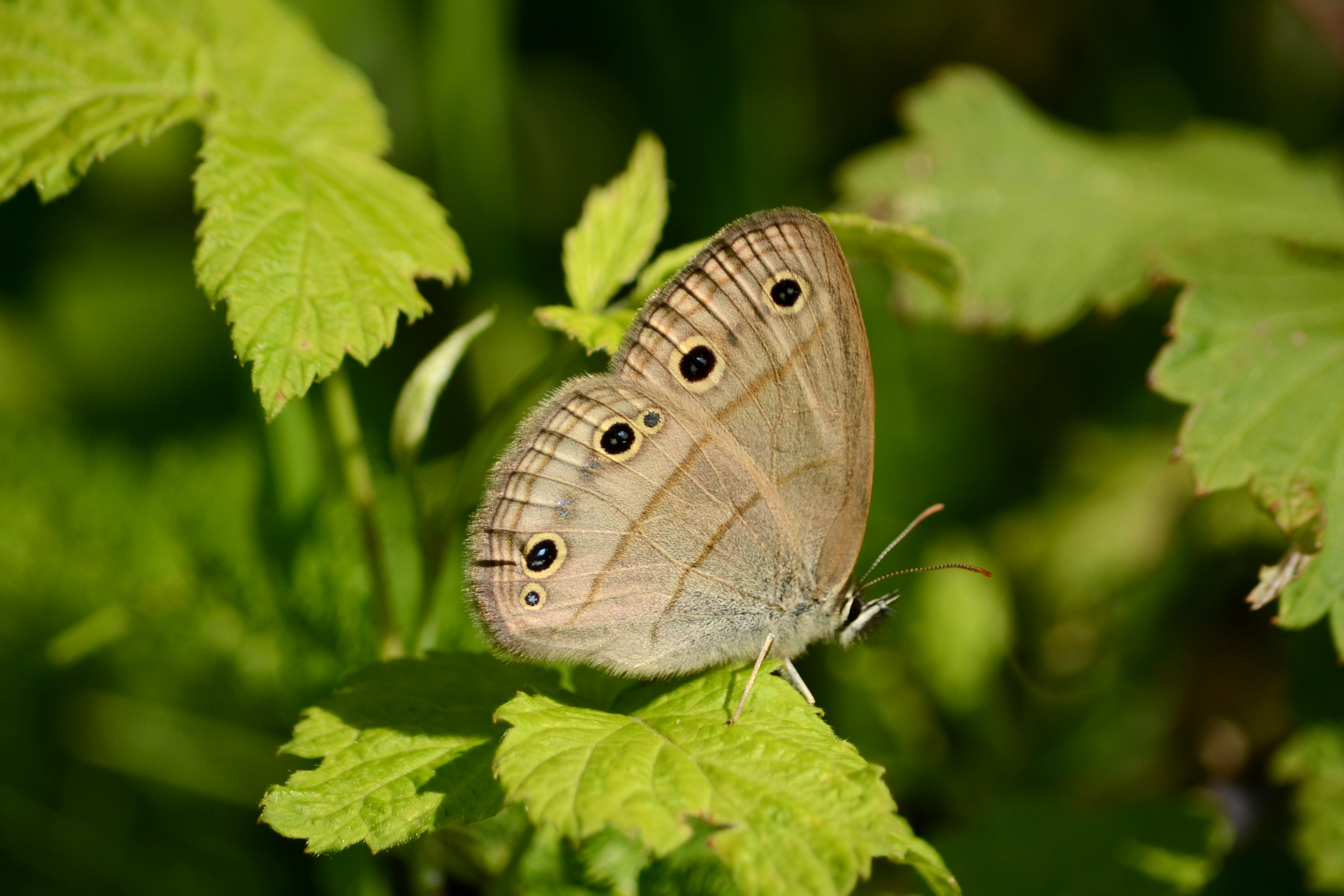 Little Wood-satyr at Grey Cloud Dunes, Minnesota, USA